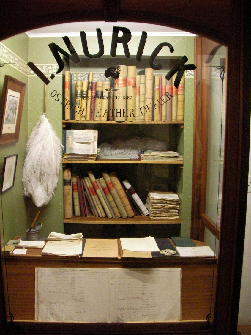 The CP Nel Museum in Oudtshoorn recreates and pays homage to the industries and names who played their part in establishing Oudtshoorn as a country town which once bustled with commerce and life. At the heart of the bustling commercial days of Oudtshoorn was the feather trade, more particularly the Ostrich feather trade. The museum exhibits information and recreations of the ostrich feather industry, as well as featuring an old pharmacy, antiquities and a Jewish synagogue which is still in use today. It is named in honor of Colonel C.P Nel. This media shows a South African Protected Site with SAHRA file reference 9/2/068/0007.